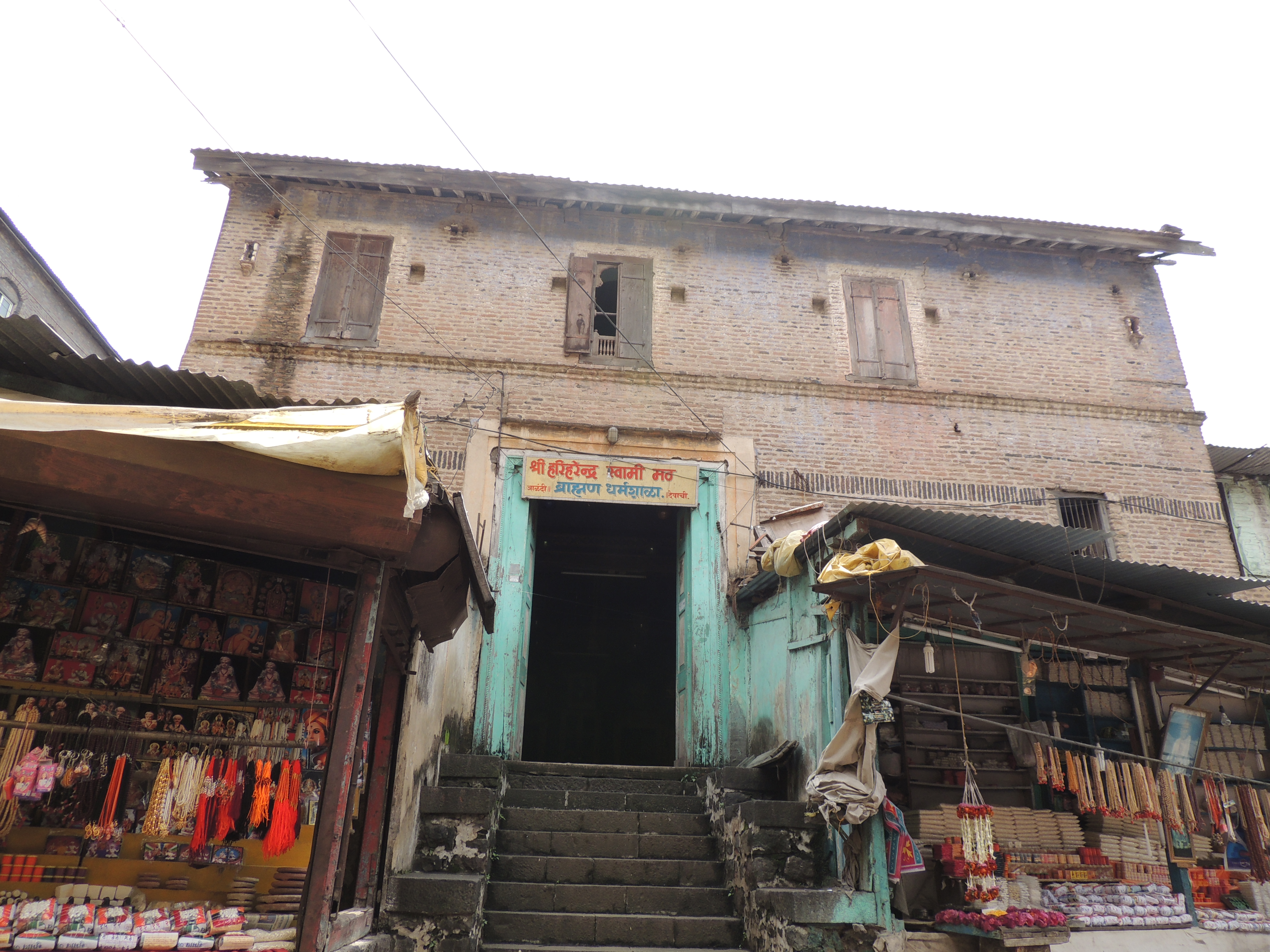 Alandi Pune